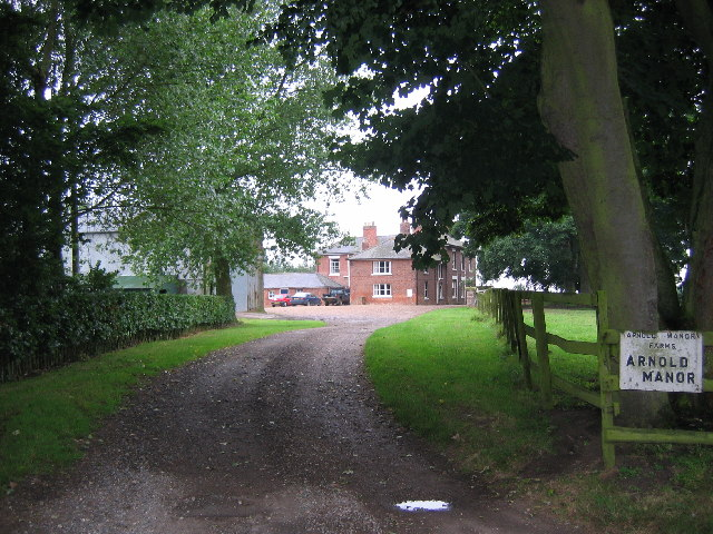 Arnold Manor, Arnold, East Riding of Yorkshire, England.Situated in the bottom NE corner of the grid square. The village of Arnold is to the west of the A165 in this farming area.